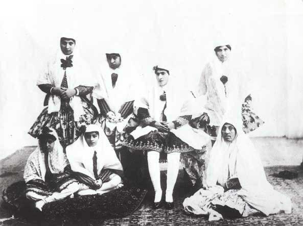 Antoin sevruguin's historical photographs